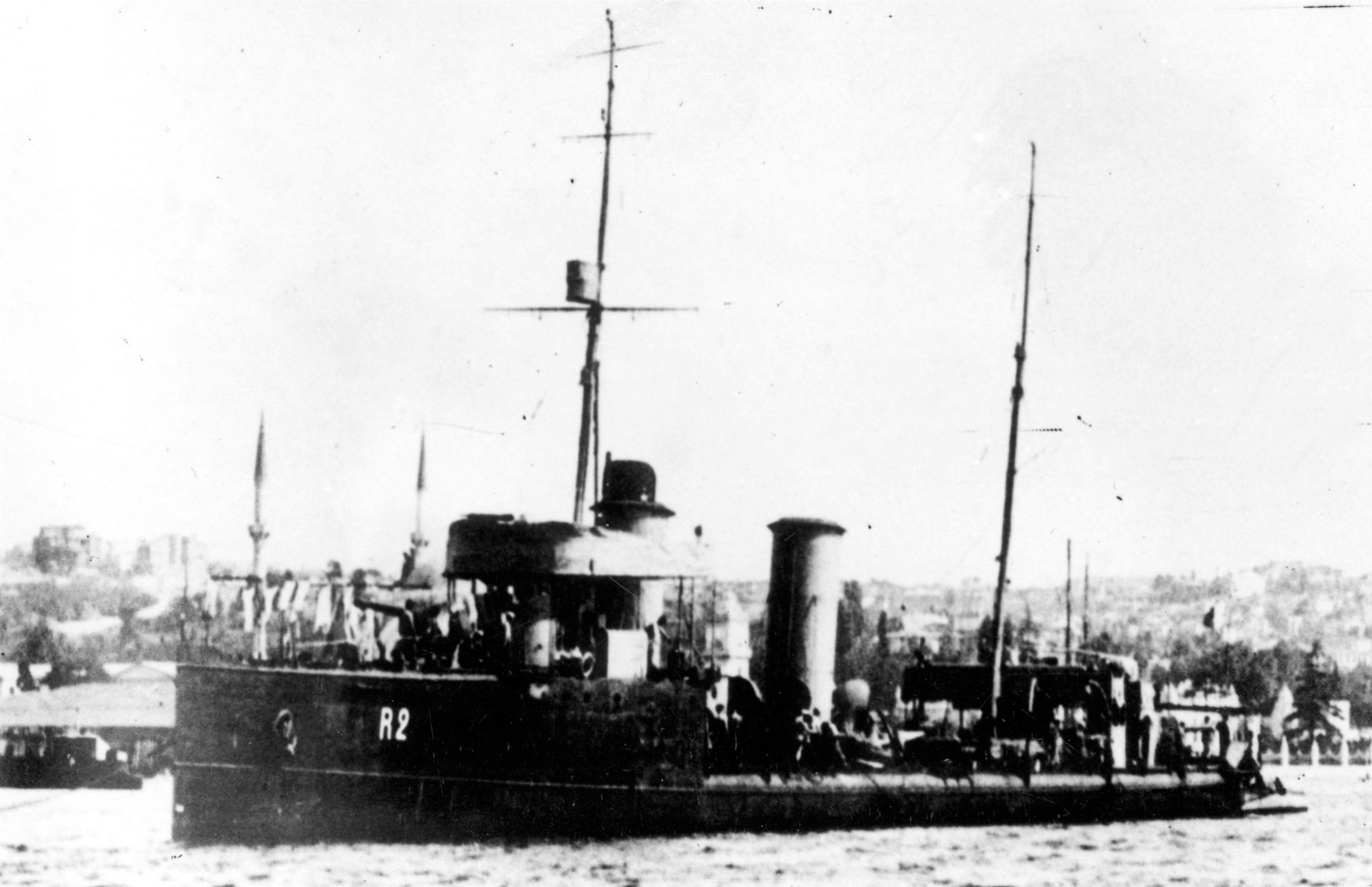 Torpedo boat Kapitan Saken under French flag as R 2 at Constantinople in Aug(?) 1919. [IWM Q14438]